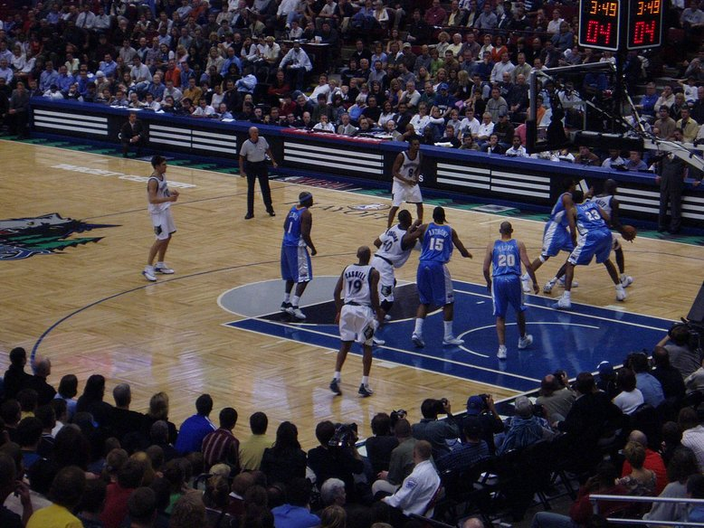 2003-2004 NBA playoffs. Timberwolves vs Nuggets in Target Center, Minneapolis, MN